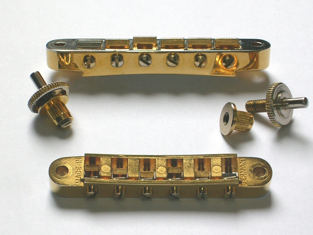 Modern Tune-o-matic